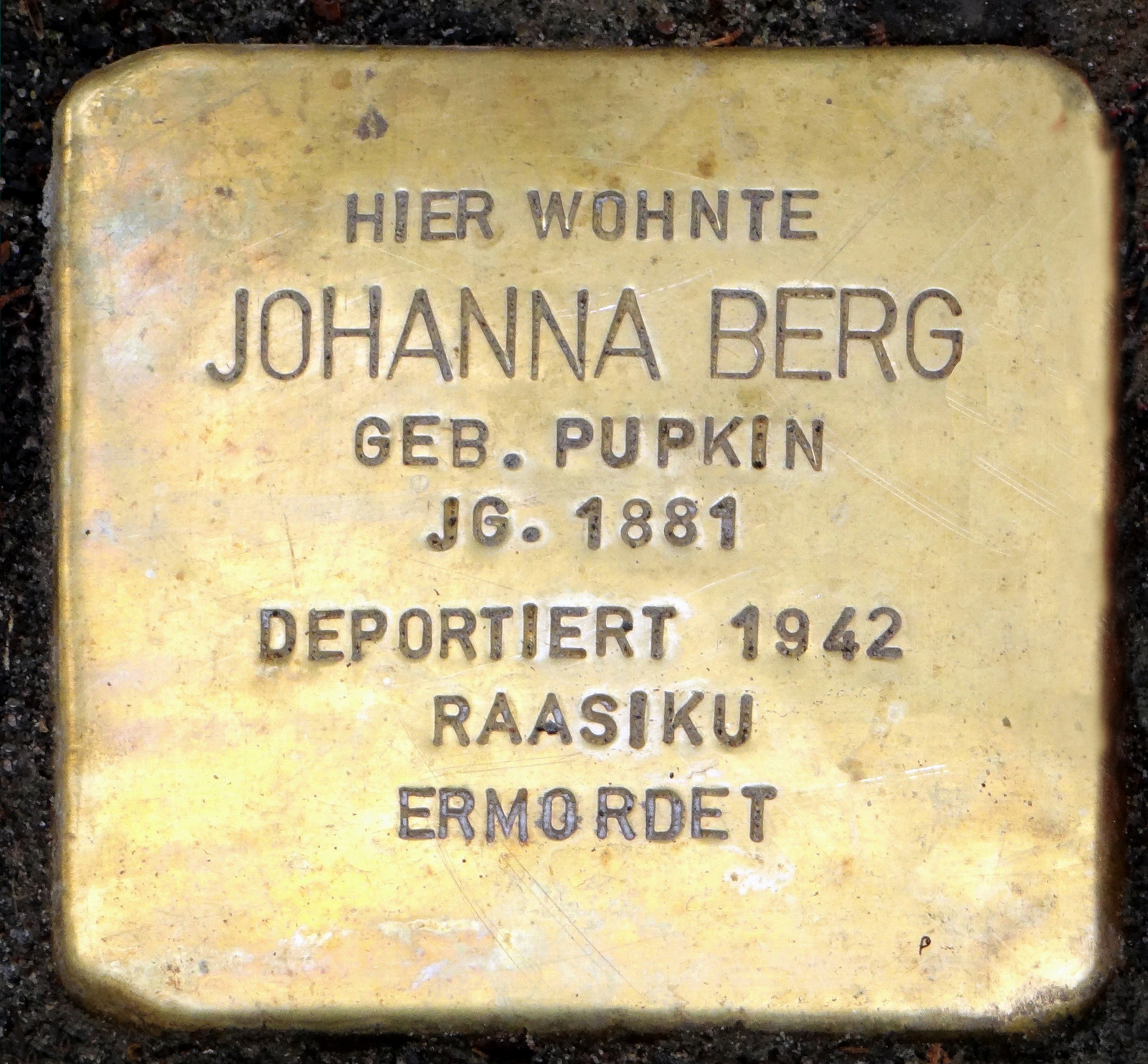 "Stolperstein" (stumbling block), Johanna Berg, Parkstraße 22, Berlin-Weißensee, Germany